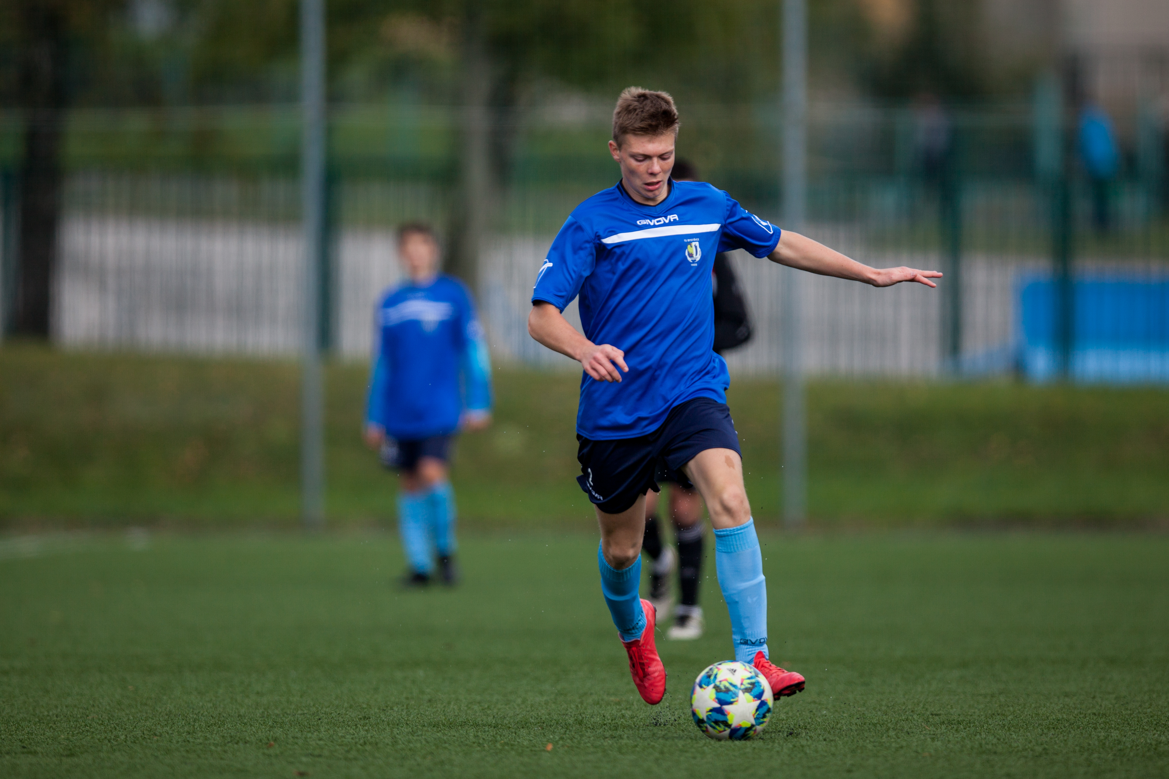 Moravian-Silesian Region youths league between FK Slavia Orlová and TJ Bystřice (3:0); Orlová, Karviná District, Moravian-Silesian Region, Czechia